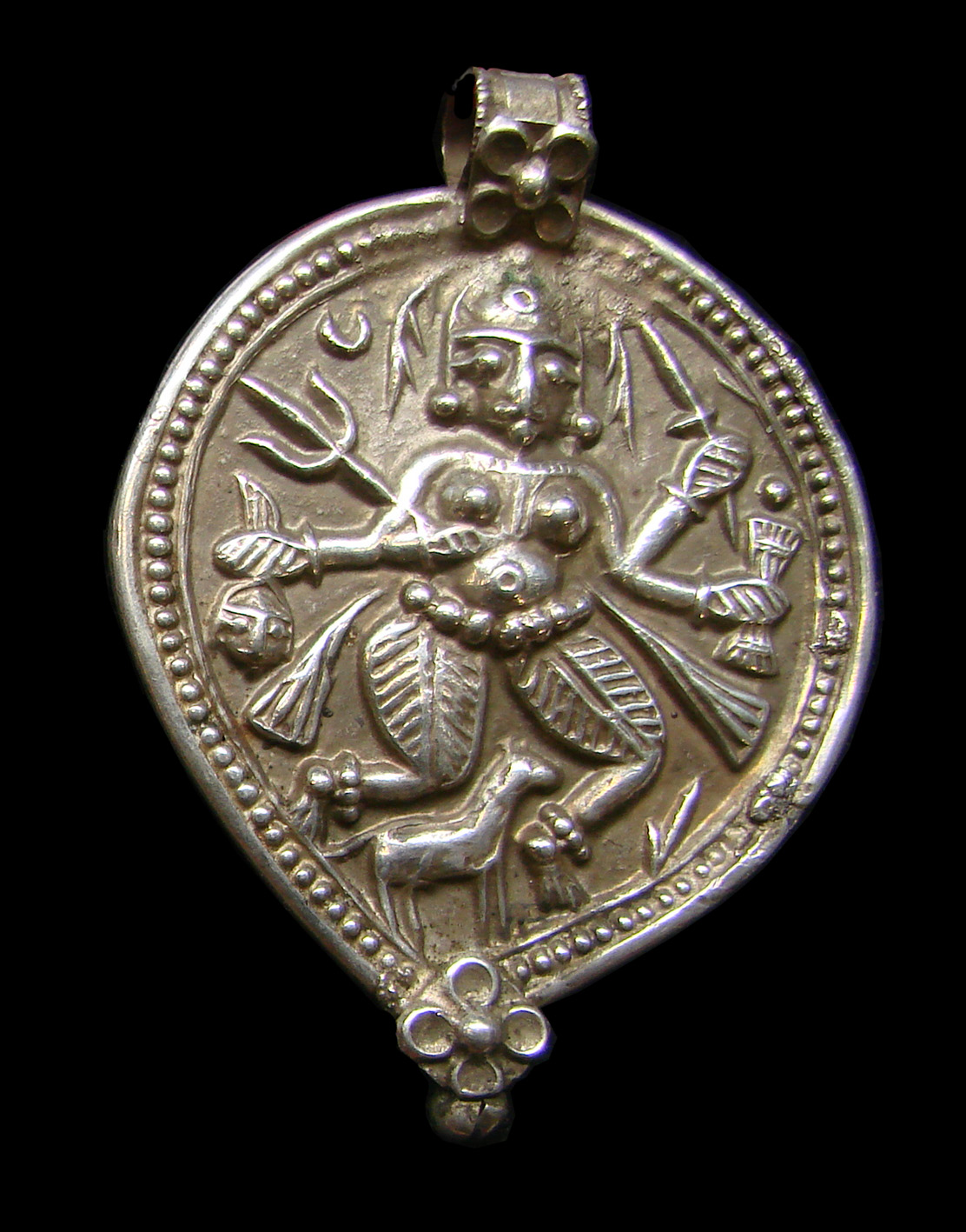 Amulet from Rajasthan. Female figure with trident and severed head indicates that it symbolizes Durga.